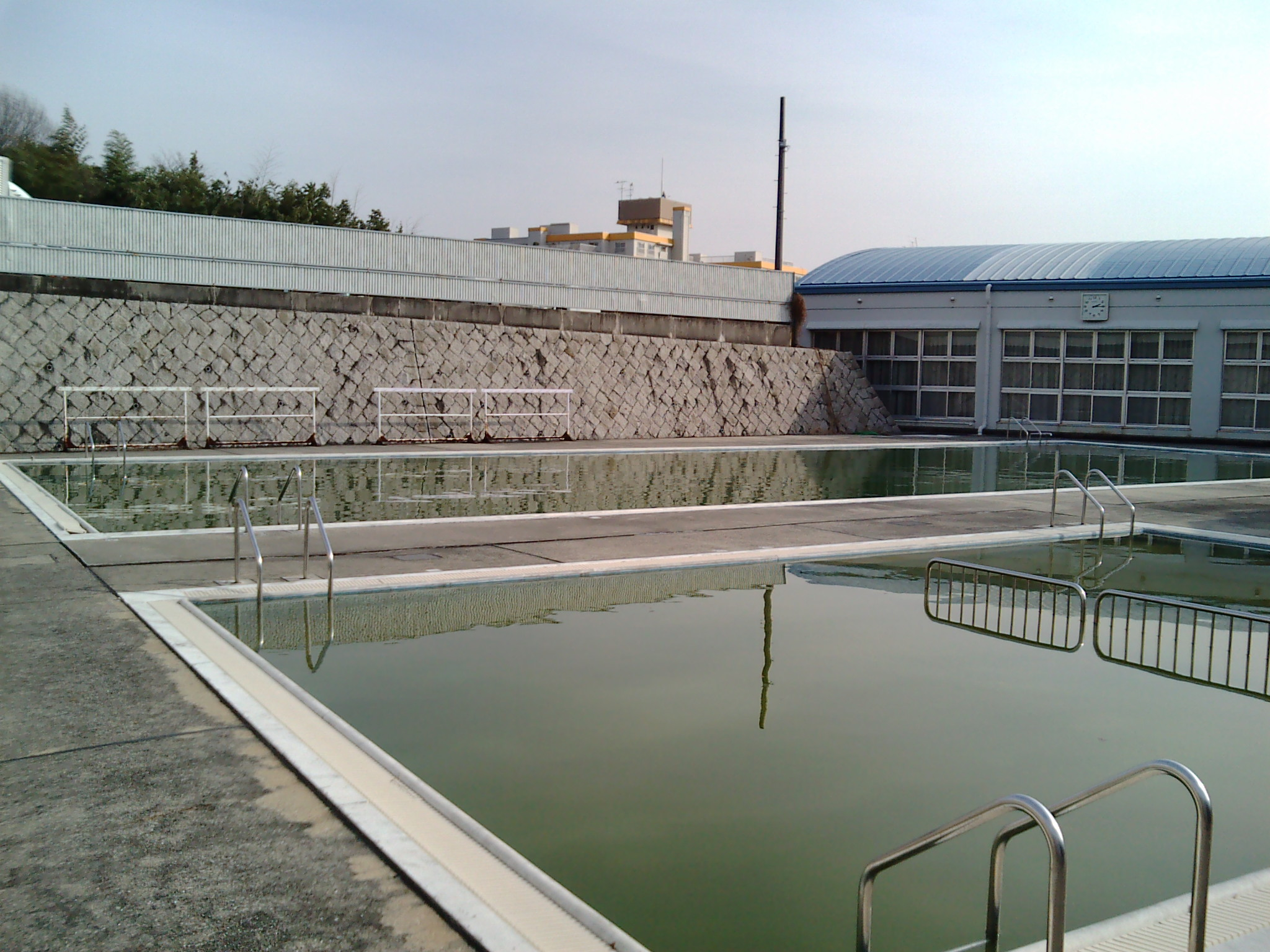 The swimming pool of Ashiya Iwazono Elementary School